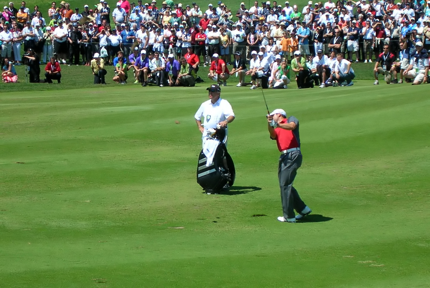 Sergio Garcia at Telus World Skins Game, La Tempête Golf Club, Lévis, province of Quebec, Canada